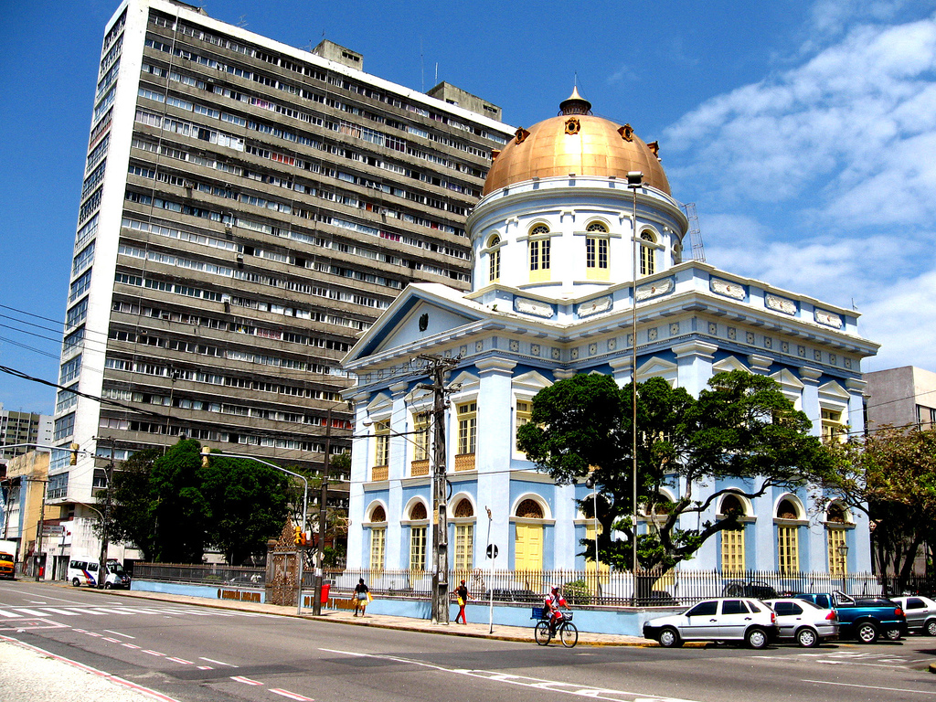 Pernambuco State Assembly in Recife, Brazil